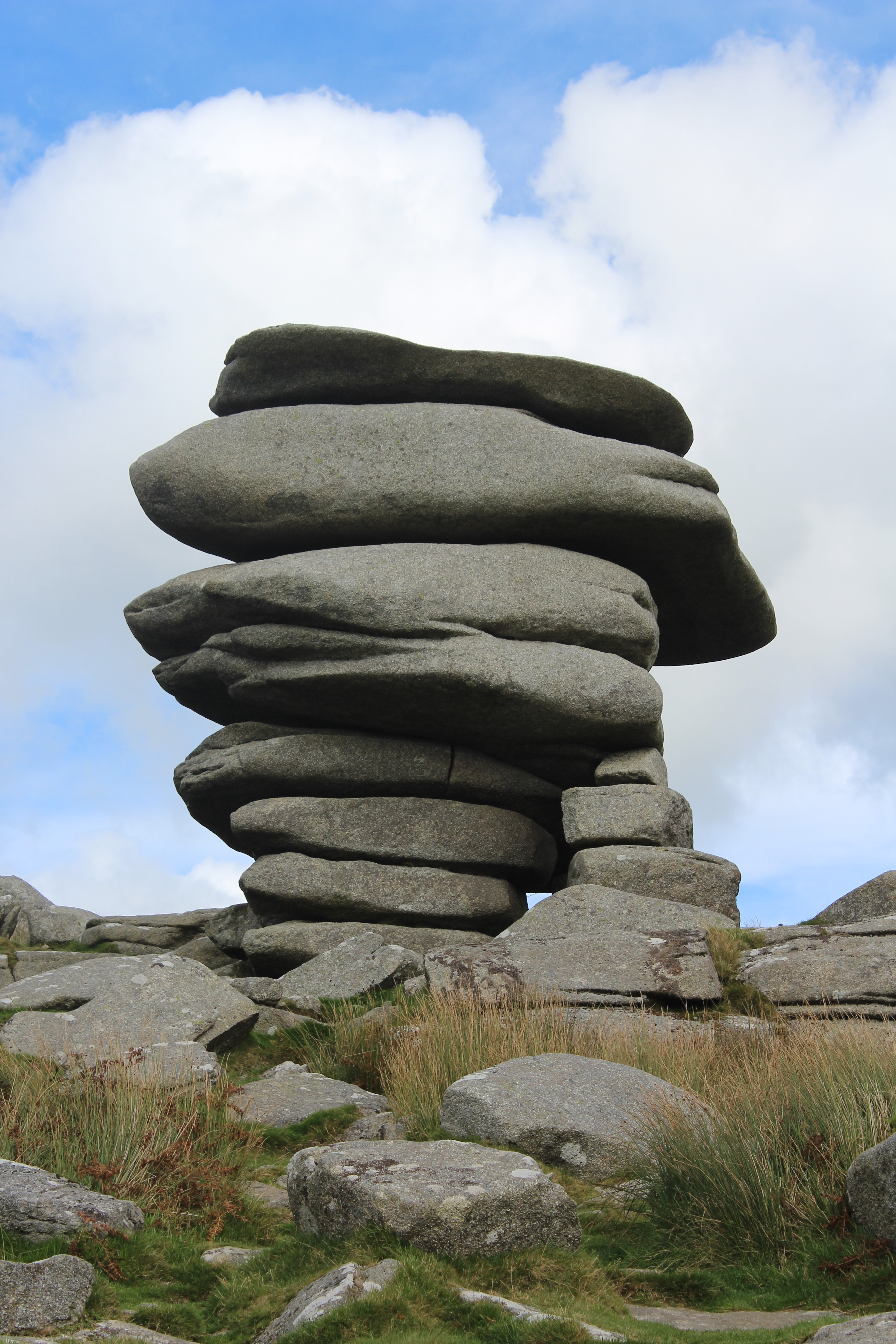 The Cheesewring on Bodmin Moor is a outcrop of granite slabs formed by weathering. It is located on the edge of Minions Quarry about 1200 m from the village of Minions, Cornwall.